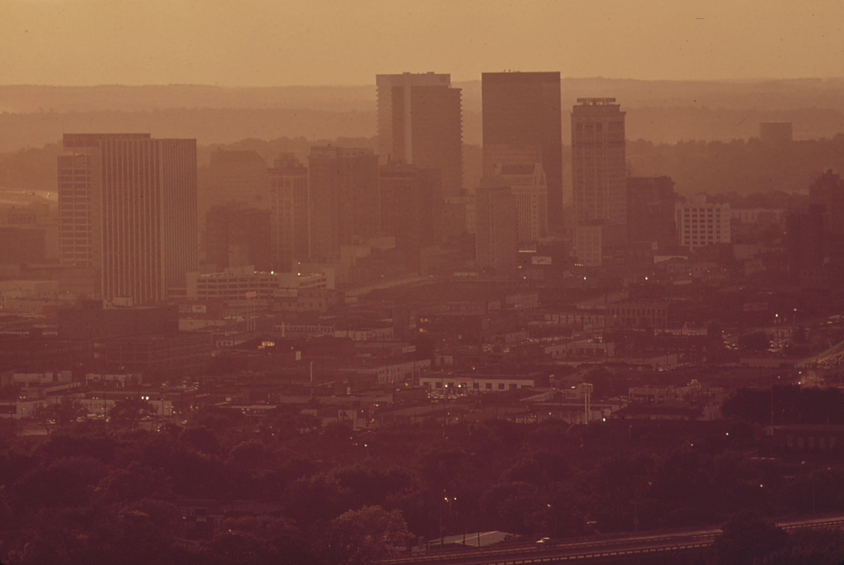 Photograph of Birmingham's skyline in August 1972. Taken by LeRoy Woodson for "DOCUMERICA: The Environmental Protection Agency's Program to Photographically Document Subjects of Environmental Concern". Official caption "THE RED-ORANGE SMOKE CHARACTERISTIC OF THE STEEL PLANT BLURS THE CITY SKYLINE, 08/1972" ARC Identifier 545499 / Local Identifier 412-DA-3012 from Record Group 412: Records of the Environmental Protection Agency, 1944 - 2006. National Archives